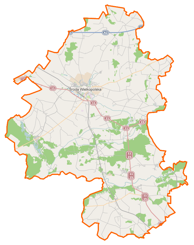 Map of Powiat średzki, Poland This map of Powiat średzki (województwo wielkopolskie) was created from OpenStreetMap project data, collected by the community. This map may be incomplete, and may contain errors. Don't rely solely on it for navigation. Border coordinates52.356717.0789←↕→17.536552.0035